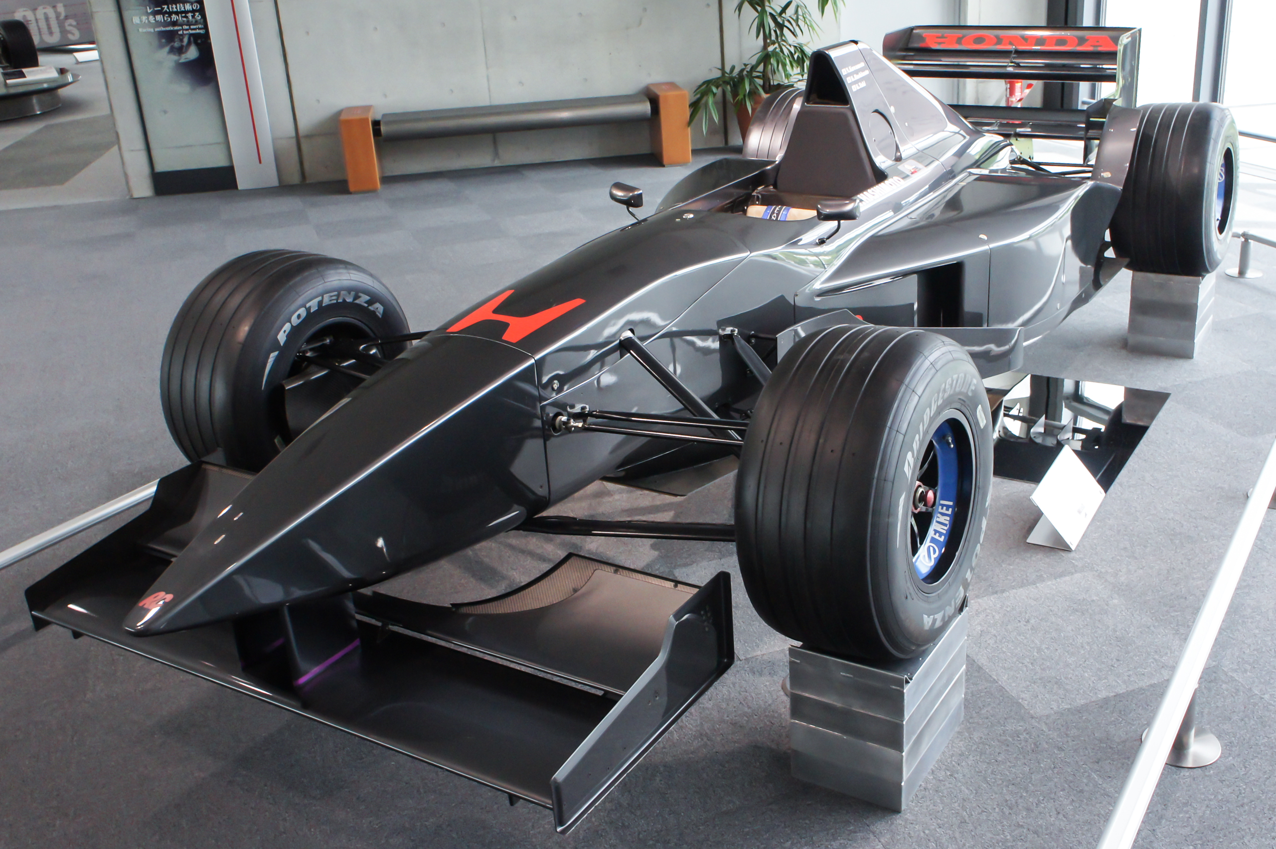 1996 Honda RC-F1 2.0X